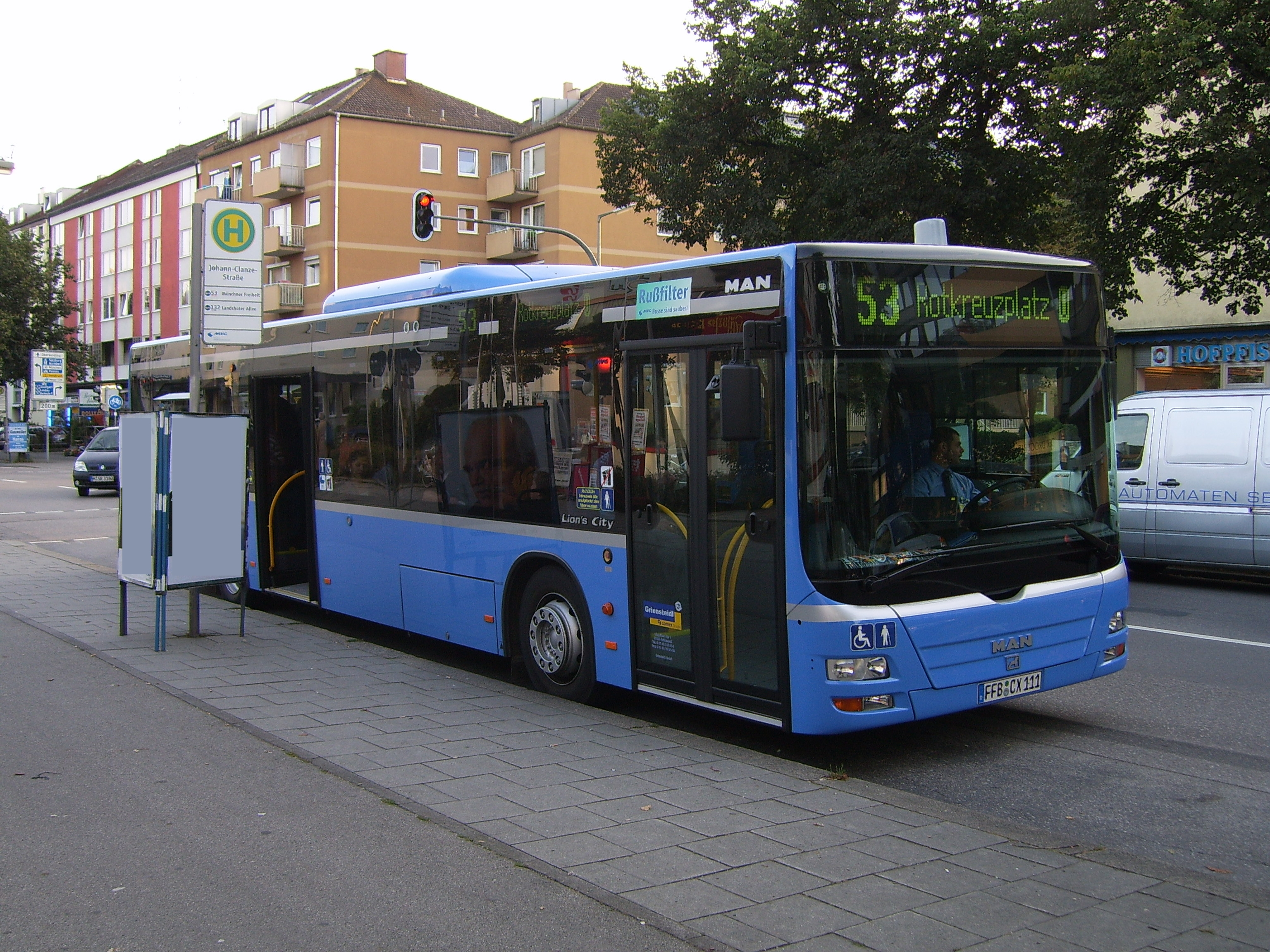 MAN Lion's City